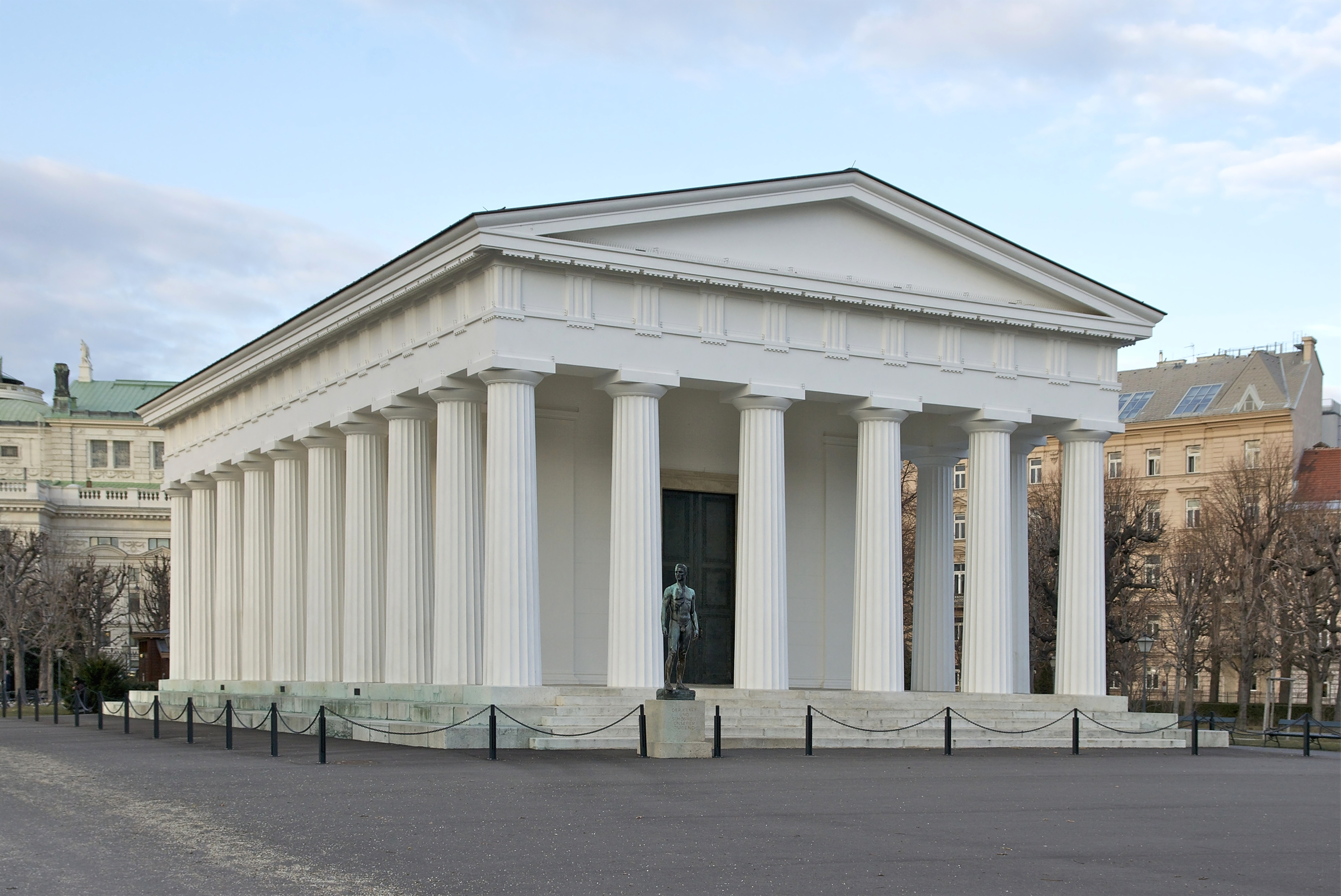 The "Temple of Theseus", replica by Peter von Nobile (1819-23) of the Theseion in Athens, Volksgarten, Vienna, Austria. The caption of the statue says : "The strength and beauty of our youth".